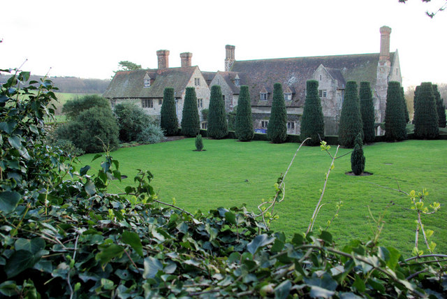 Nettlestead Place An antiquity according to the map.